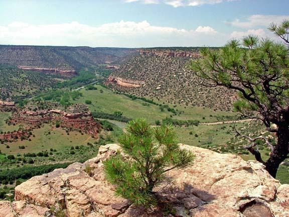 A photograph of the Canadian River Canyon in Kiowa National Grassland.